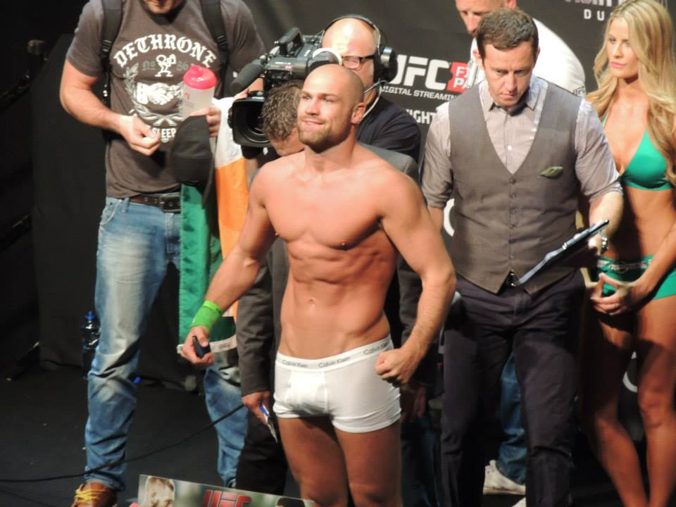 Former MMA Fighter